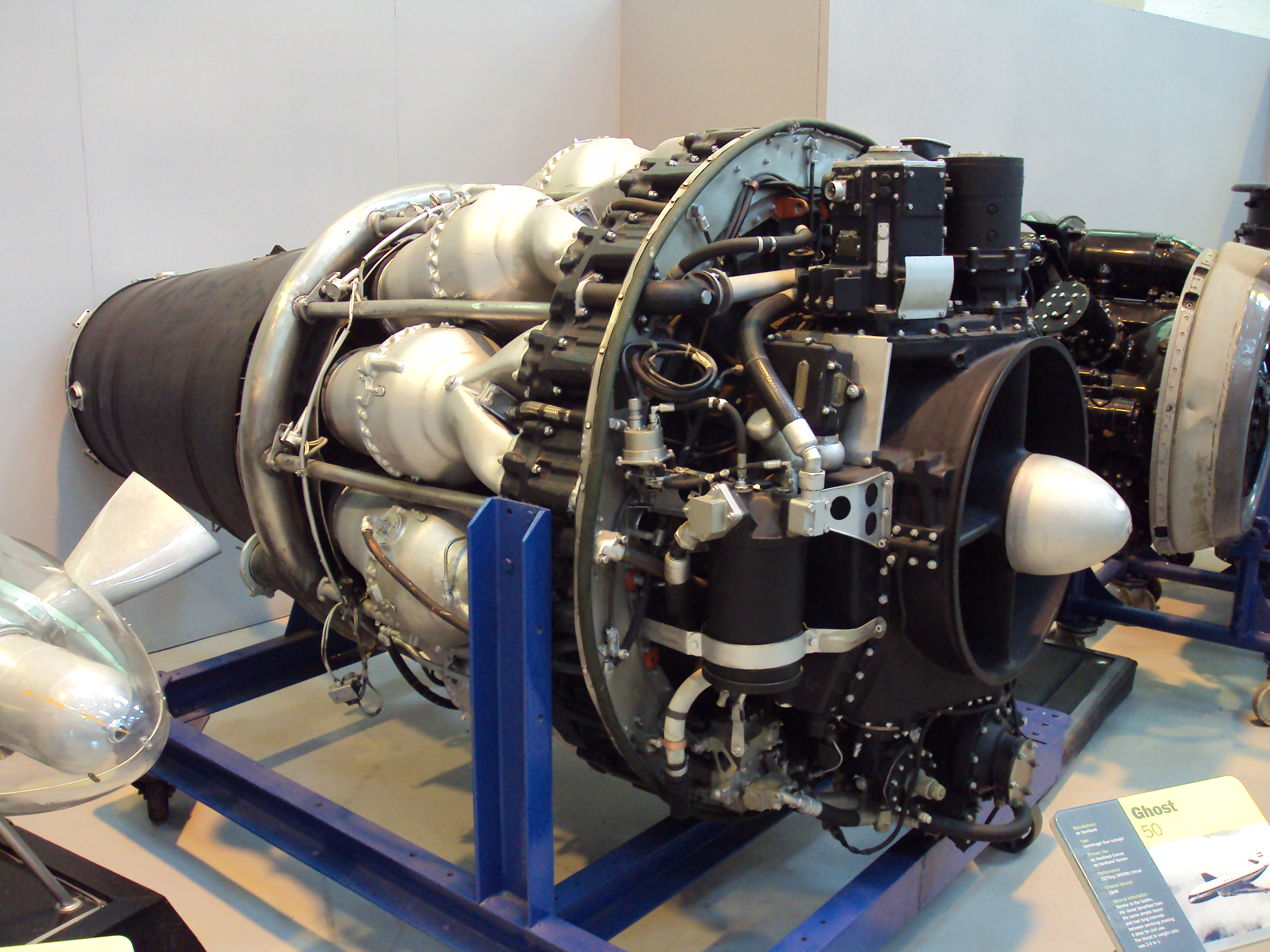 De Havilland Ghost 50 centrifugal flow turbojet aircraft engine. Photo taken at the RAF Museum Cosford, Shropshire, England.